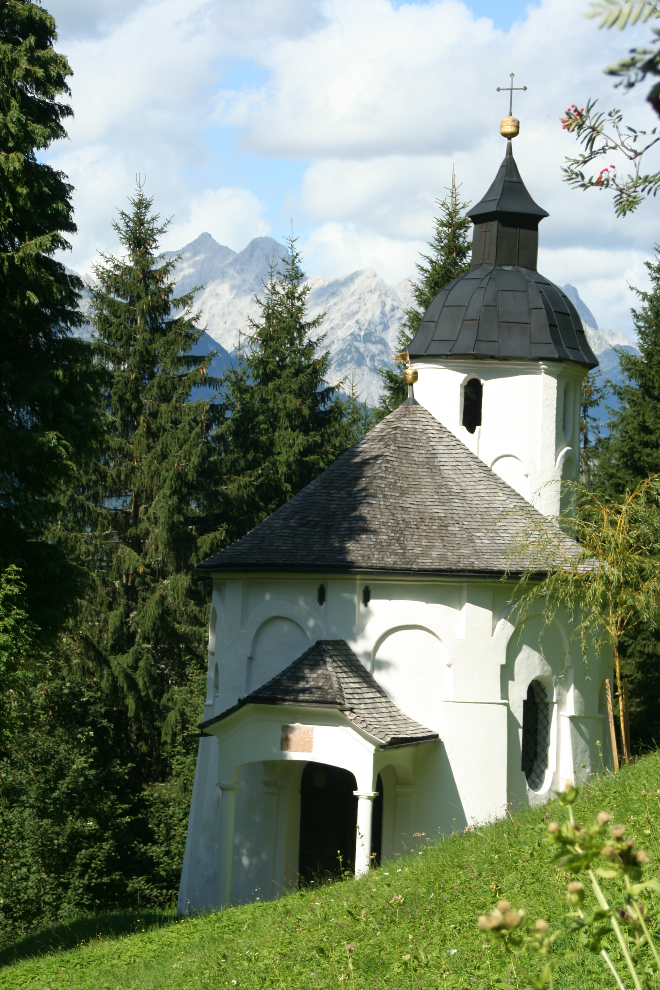 The chapel of Volderwildbad in the Voldertal, Tyrol, Austria. In the background the Karwendel with Hochglück, Kaiserkopf and Huderbank